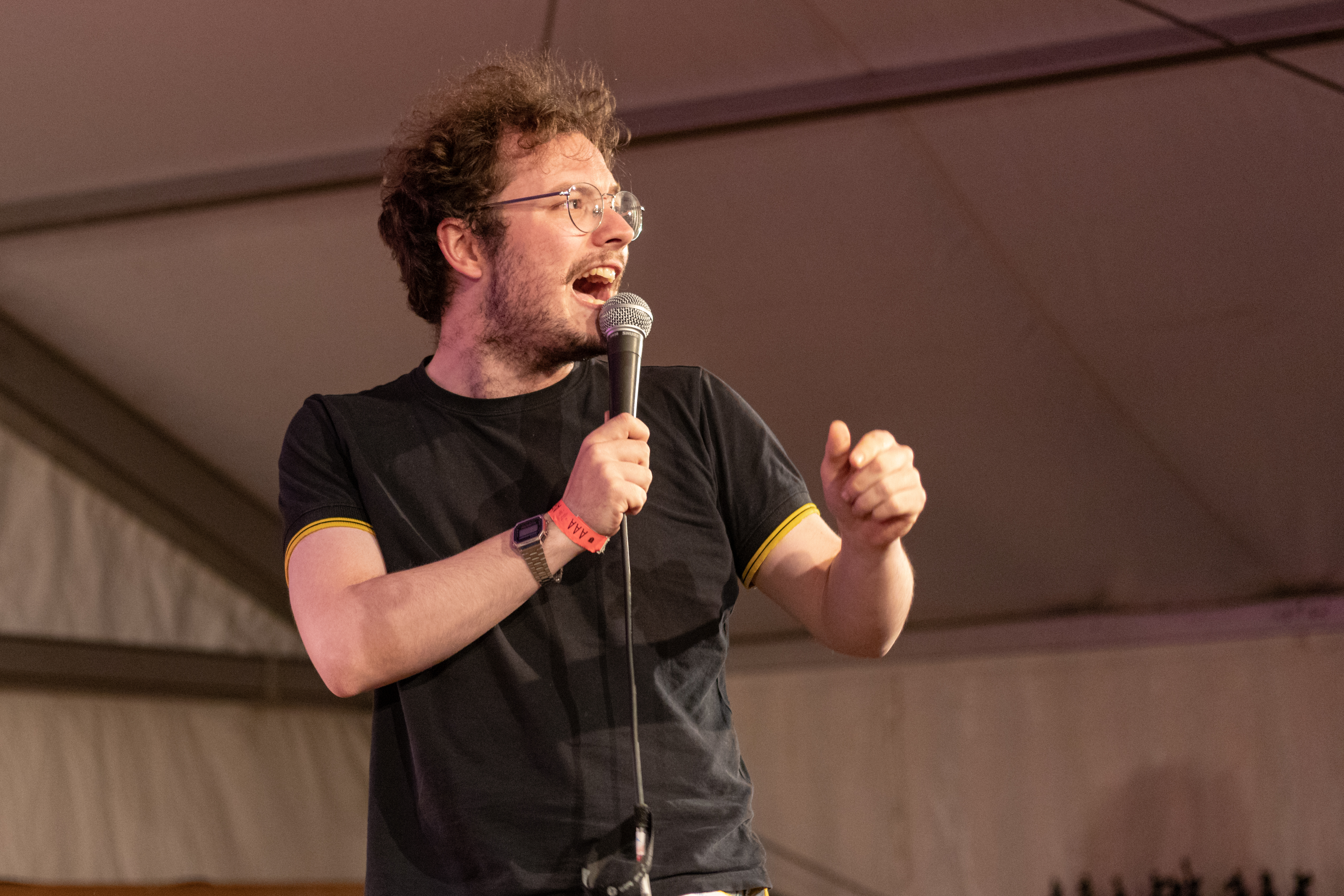 Jason Bartsch in the Niederrheintent at Haldern Pop Festival 2019.